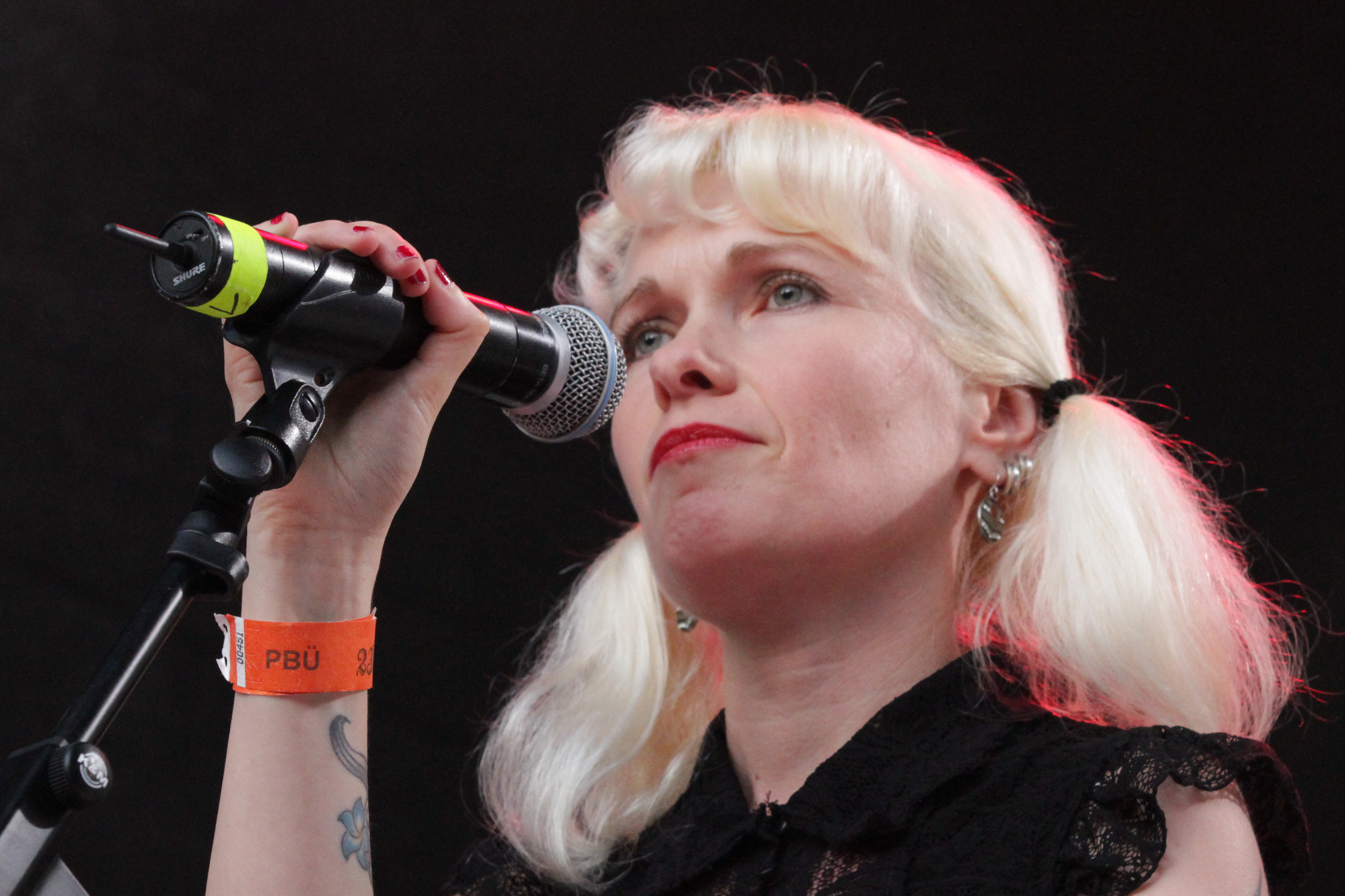 Illuminate at the Wave-Gotik-Treffen 2014.